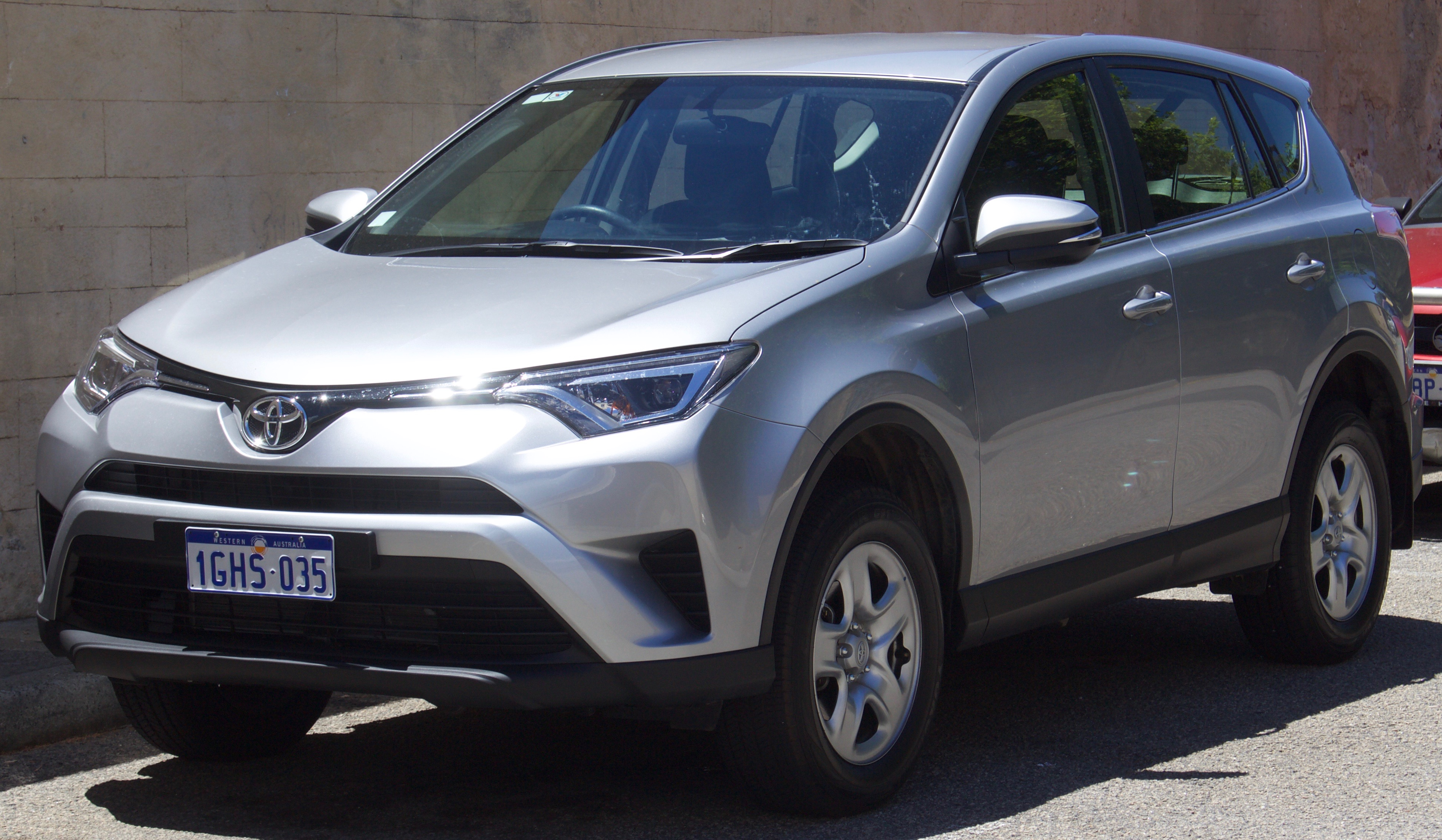 2017 Toyota RAV4 (ASA44R MY17) GX AWD wagon. Photographed in Fremantle, Western Australia, Australia.